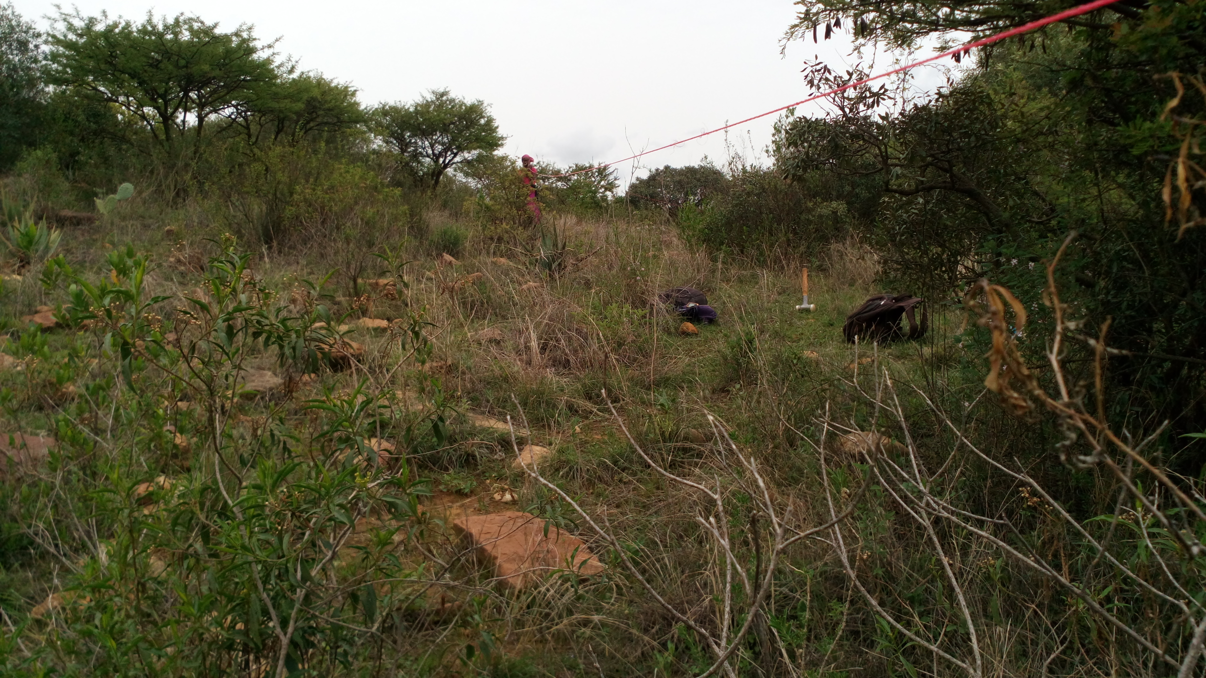 Addilal